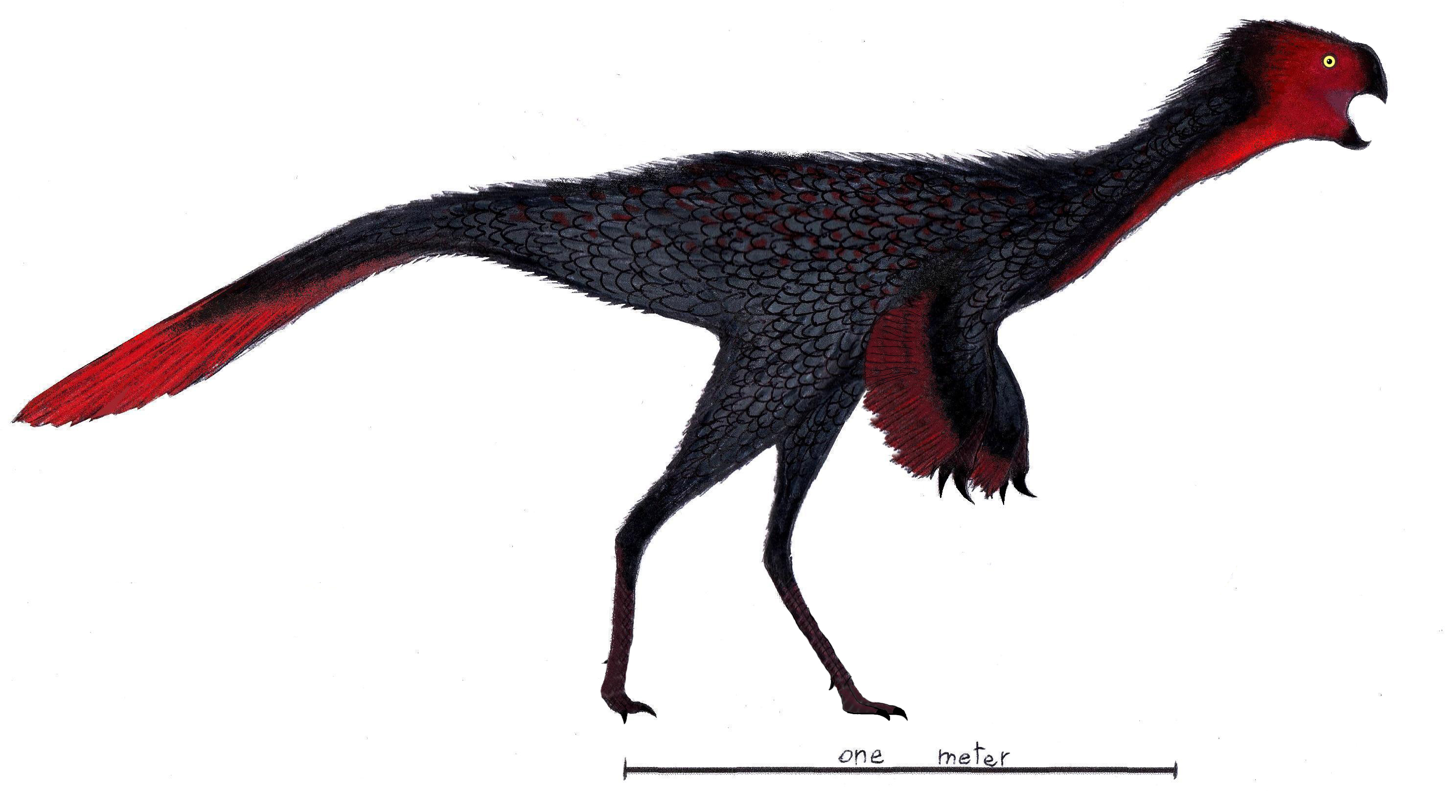 Ajancingenia restoration